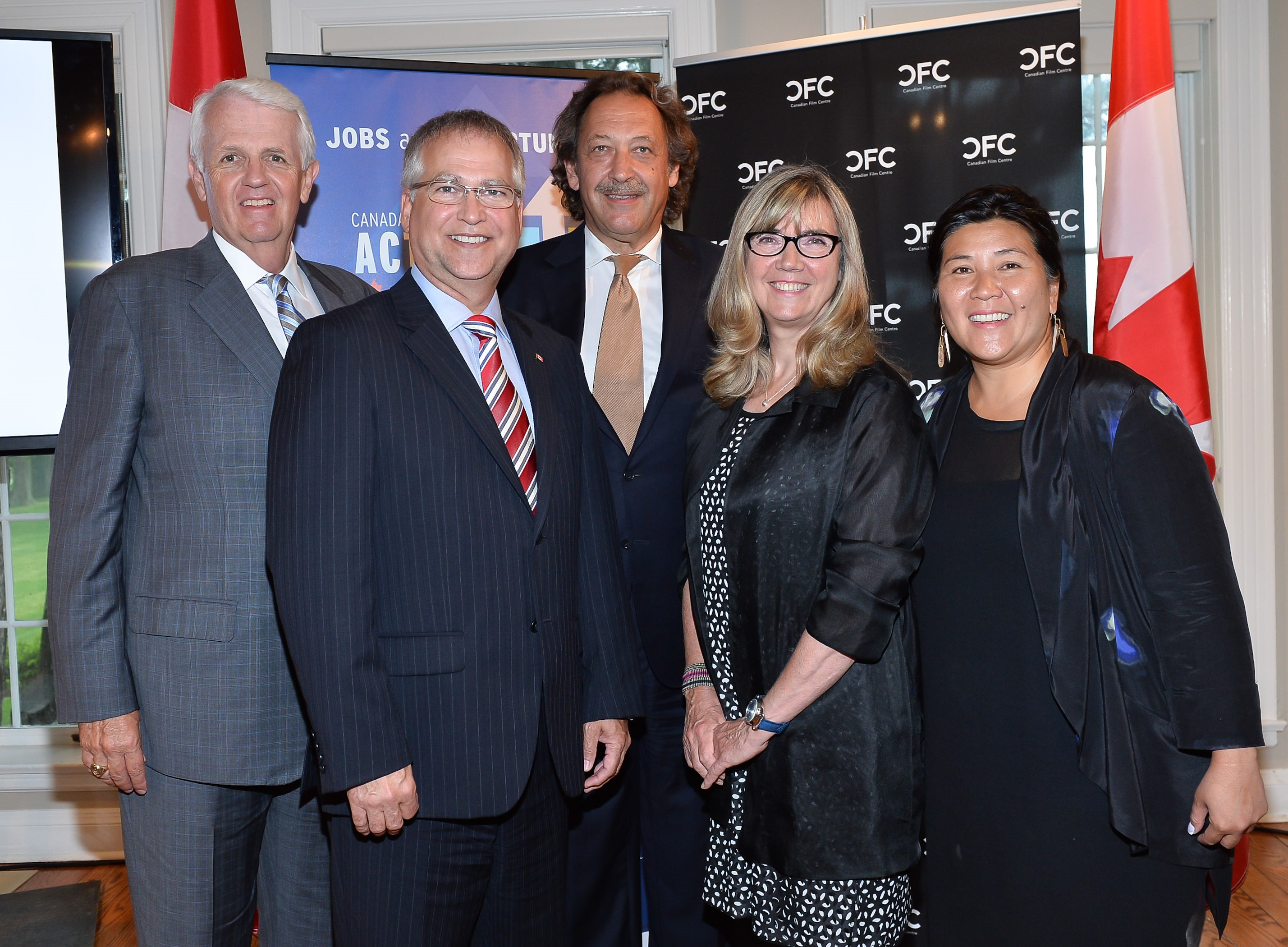 From Left to Right: John Carmichael, MP, Don Valley West; The Honourable Gary Goodyear, Minister of State for the Federal Economic Development Agency for Southern Ontario (FedDev Ontario); Slawko Klykiw, CEO, CFC; Christina Jennings, Chair, CFC Board of Directors; Ana Serrano, Chief Digital Officer, CFC.